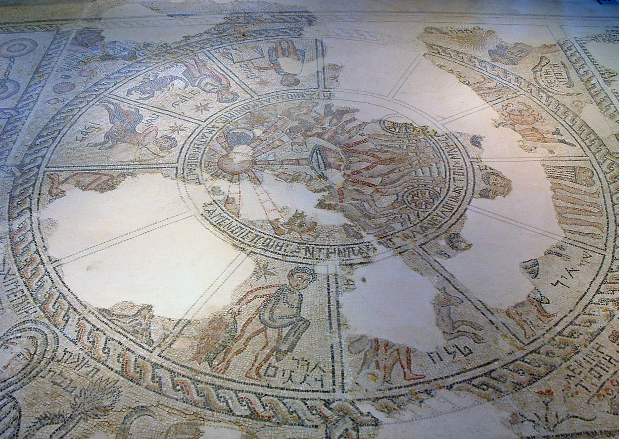 Mosaic floor, Tzippori (Sepphoris) synagogue, Israel. It dates from the 6th century CE. Source Wkipedia at